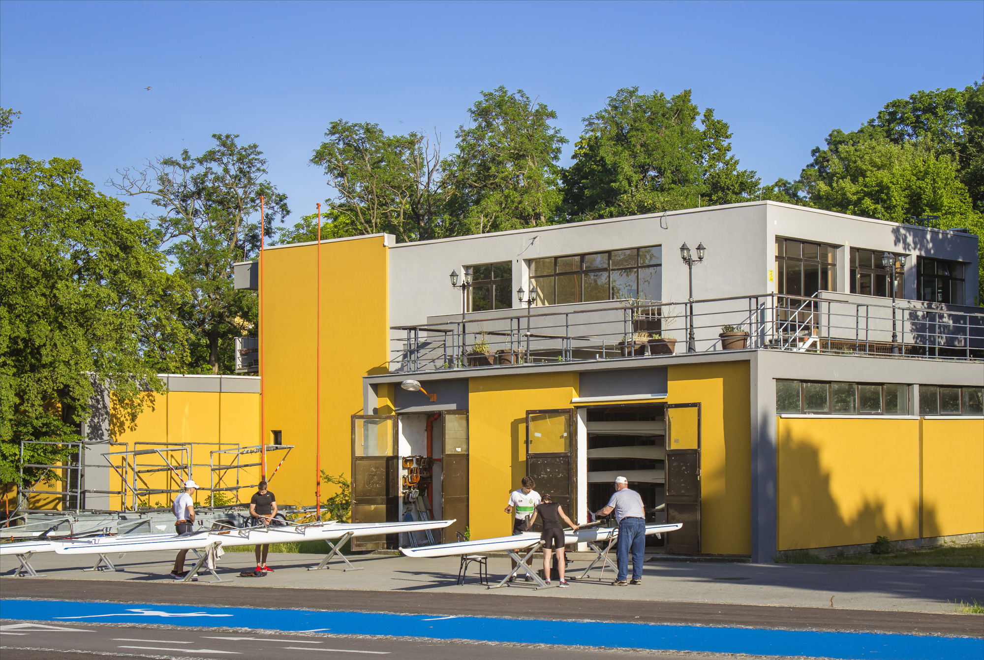 VK Iktus Osijek